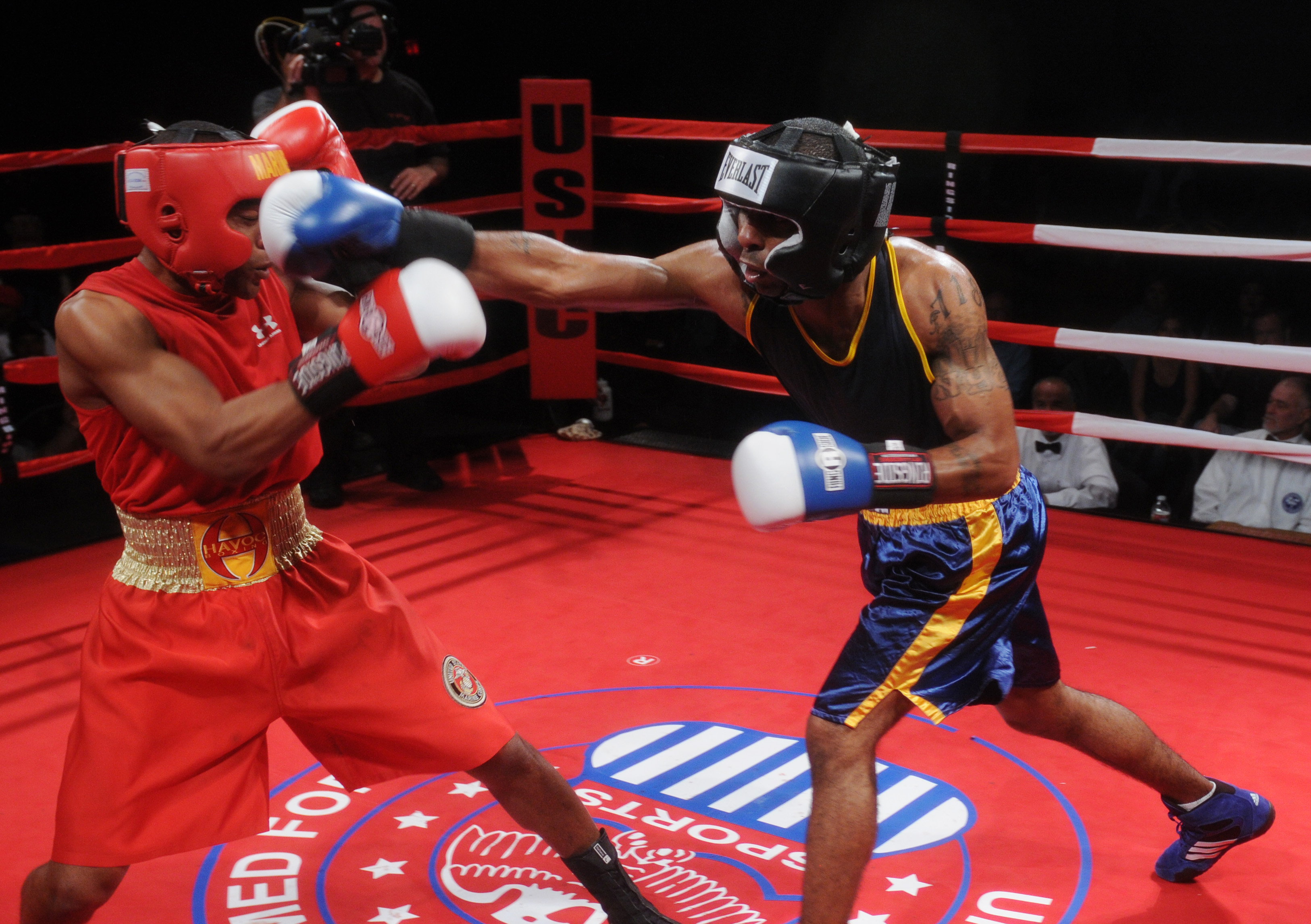 CAMP PENDLETON, Calif. (Feb. 3, 2012) Petty Officer 2nd Class Carlos Moore throws a cross punch at Lance Cpl. Jonathan Steele during the finals of the 2012 Armed Forces Boxing Championship at Camp Pendleton, Calif. (U.S. Navy photo by Mass Communication Specialist 2nd Class Elliott Fabrizio/Released)